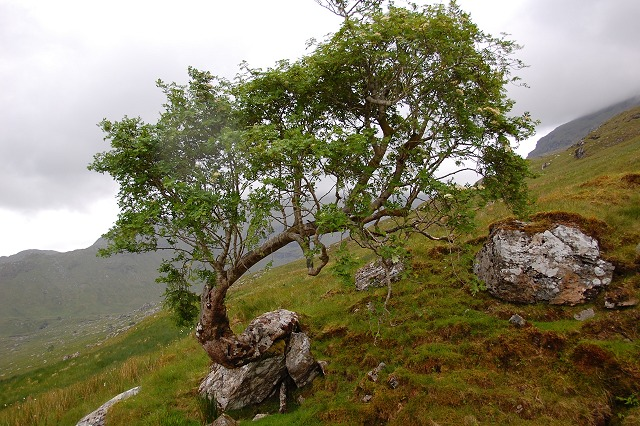 Tree growing out of rock in Coire Earb Whilst the image of a tree growing out of a crack in a hillside rock is familiar in the Scottish Highlands, this one is remarkable for the size and shape of its trunk - it's almost as if disguised to look like the rock.